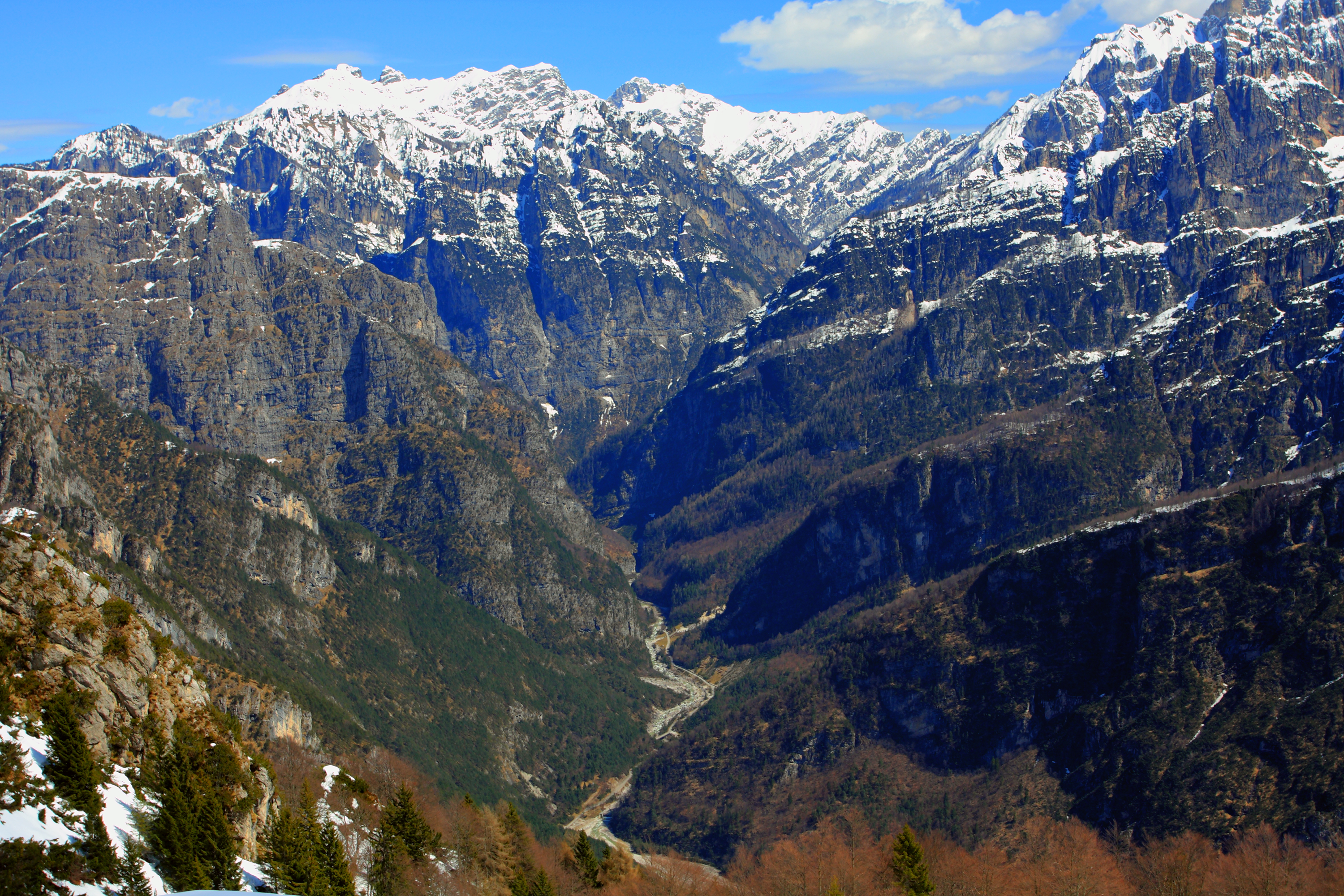 The Cimoliana Valley from Lodina Shelter (m 1.567)